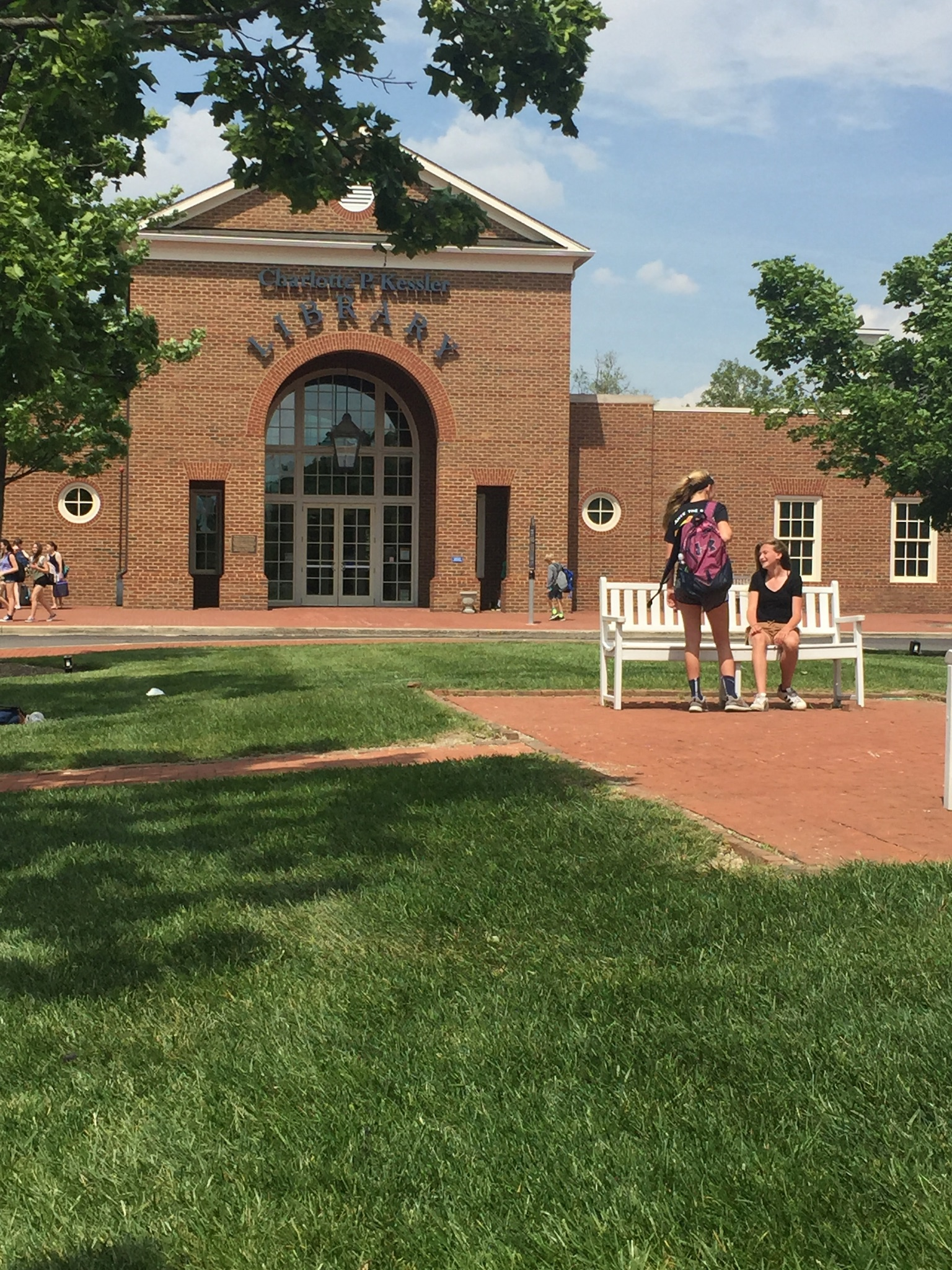 New Albany Branch Library at Market Square in New Albany, Ohio. The public library is a branch of Columbus Metropolitan Libraries. The library was opened with support from the New Albany Community Foundation, Columbus Metropolitan Libraries, and other benefactors.